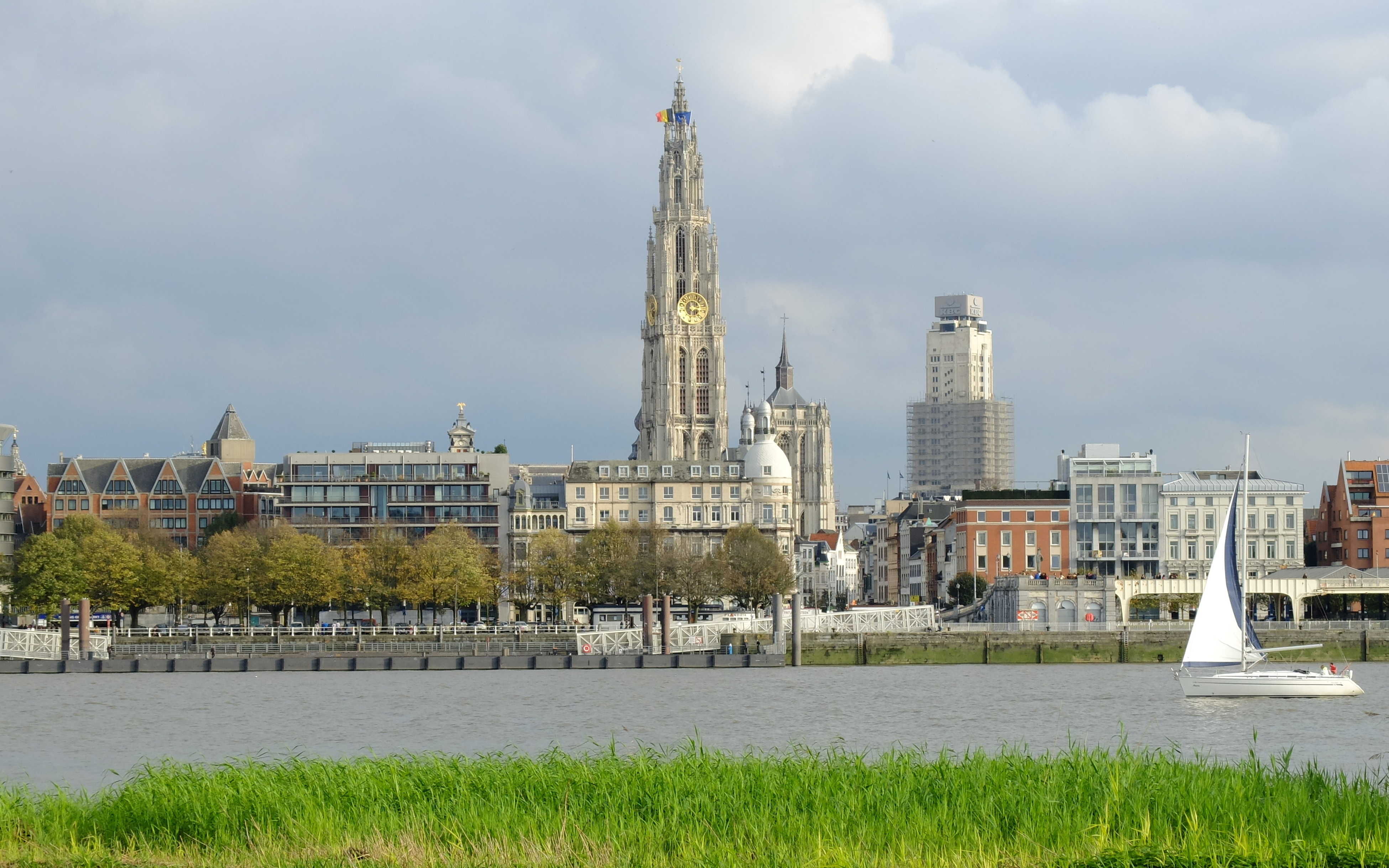 Skyline Antwerpen met OLV toren en Boerentoren